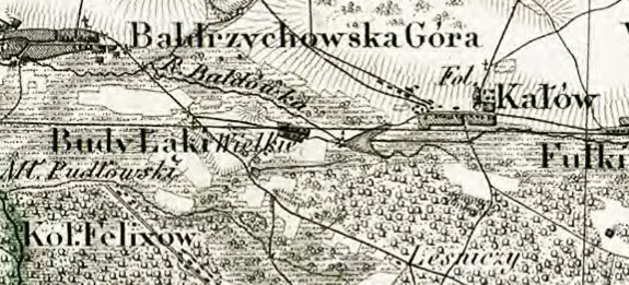 Map of Kałów from 1839